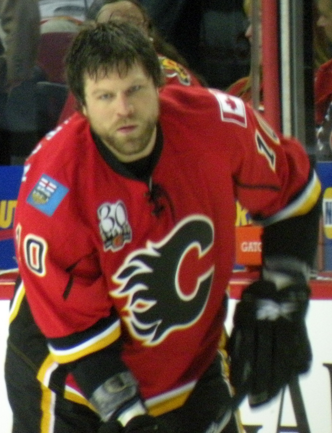 Nashville Predators forward Brian McGrattan prior to a National Hockey League game against the Vancouver Canucks in Calgary.